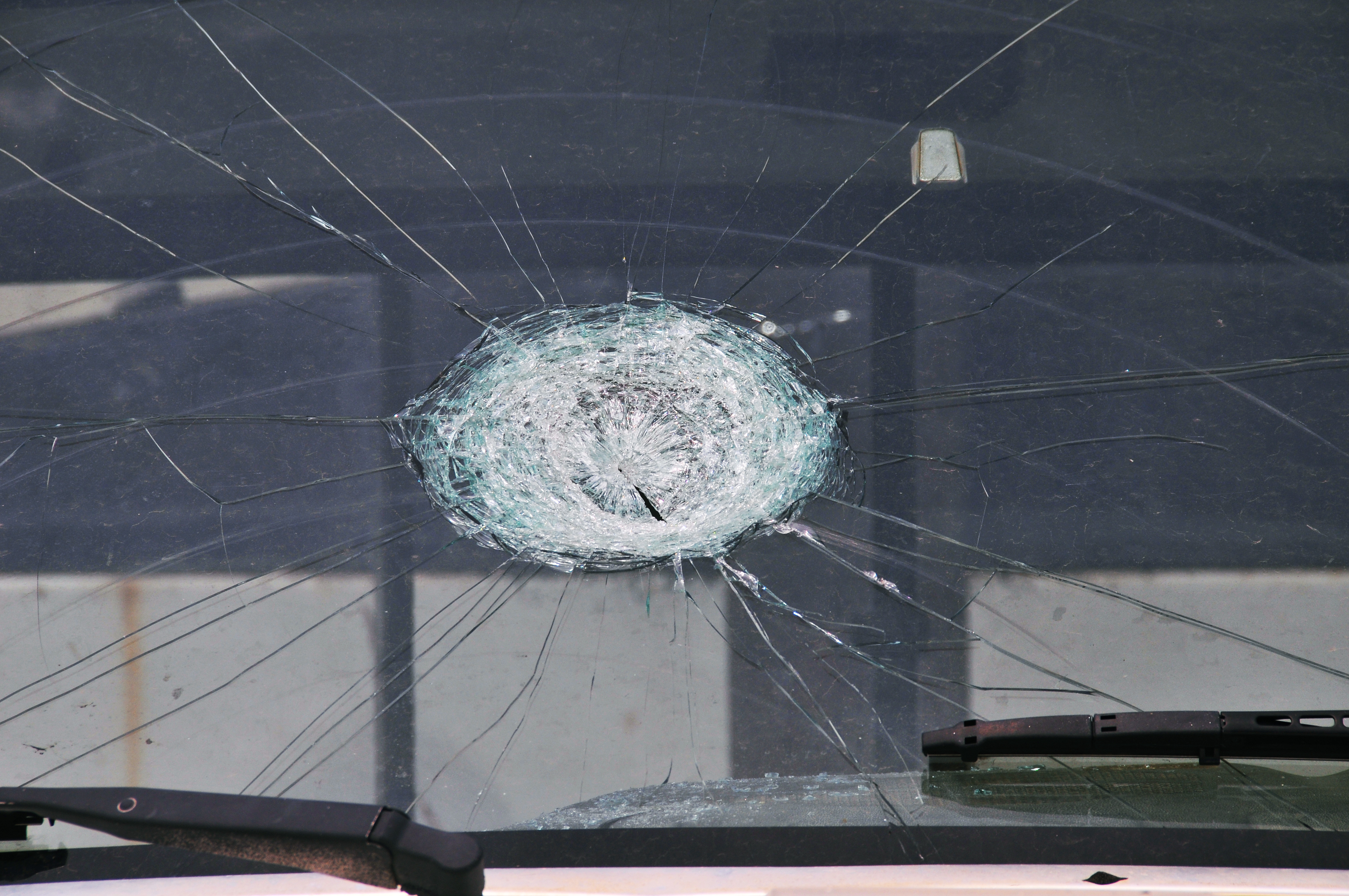 Moore, OK, May 25, 2010 -- The impact of a baseball-sized hail stone is evident on the windshield of a city service vehicle. City and county municipalities in the eastern half of the state experienced damages and losses to their buildings and other property caused by 22 confirmed tornadoes on May 10. FEMA Photo by Win Henderson